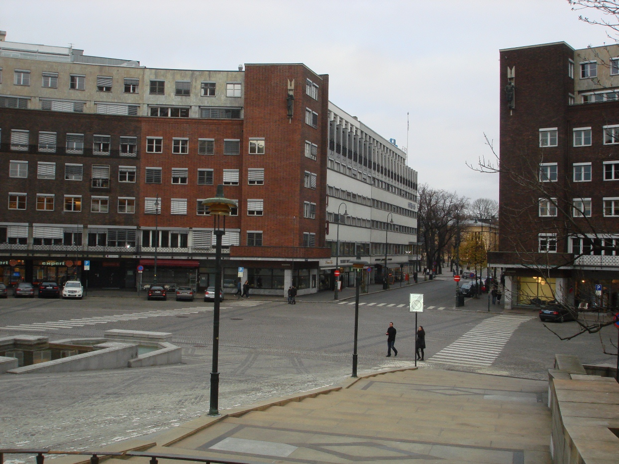 Fridtjof Nansens plass in Oslo, seen from the the forecourt of the Oslo City Hall.